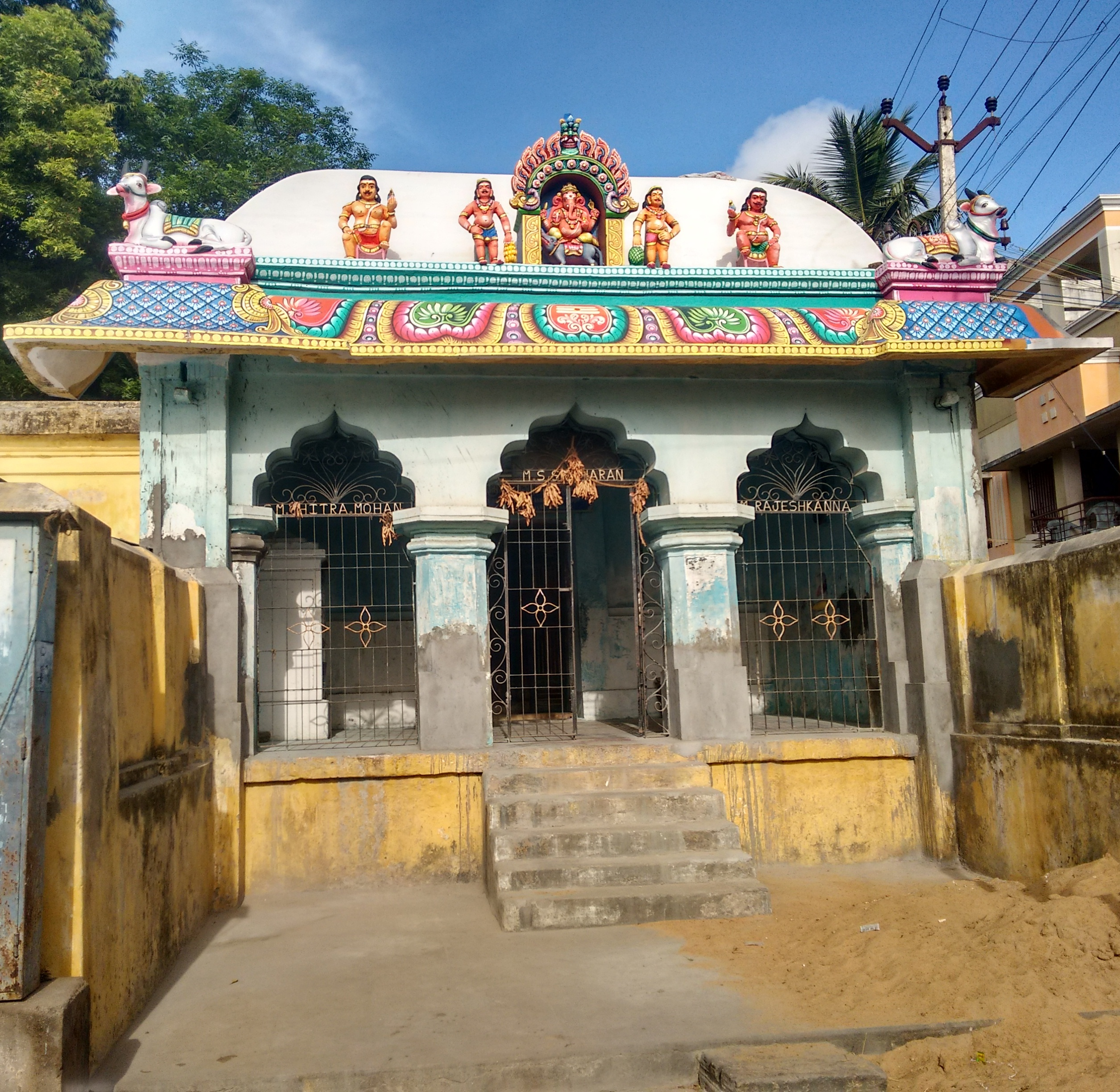 Kumbakonam poyyatha vinayakar கும்பகோணம் பொய்யாத விநாயகர்கோயில்